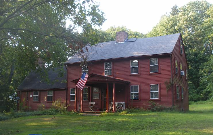 Photo of Edward Searle House, built 1677, Oaklawn (Cranston), Rhode Island, taken 21 July 2011 in afternoon. Downloaded with permission of owner.